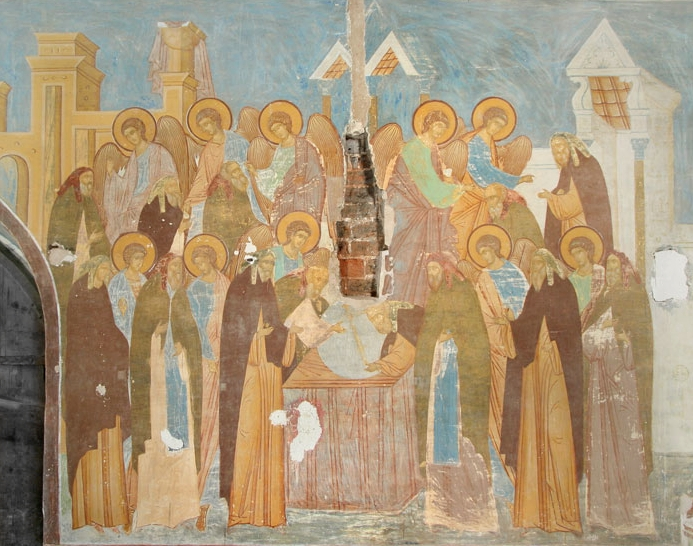 Vision of Eulogius (fresco in Ferapontov Monastery)